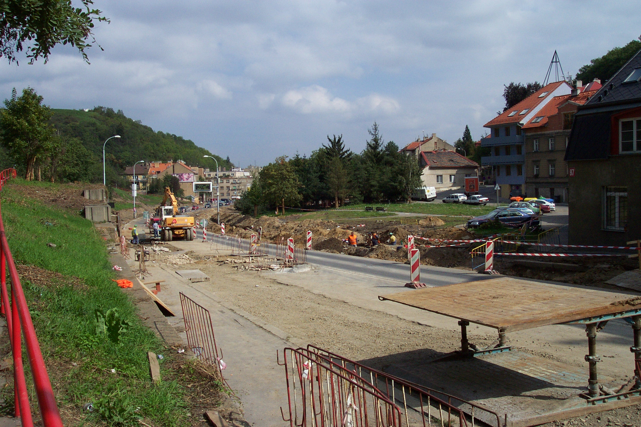 Tram track Laurová - Radlická (Prague,CZ), under construction